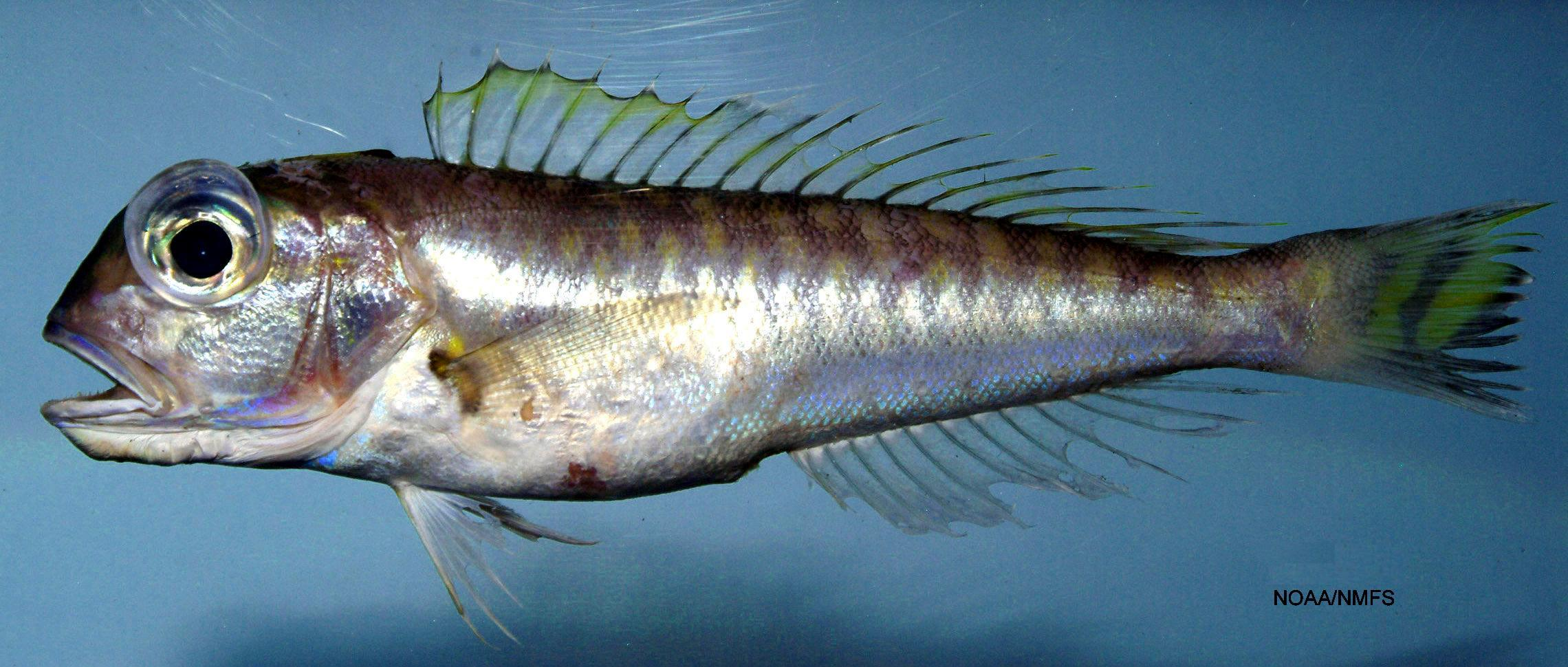 Juvenile great northern tilefish or blue tilefish (Lopholatilus chamaeleonticeps). Gulf of Mexico.